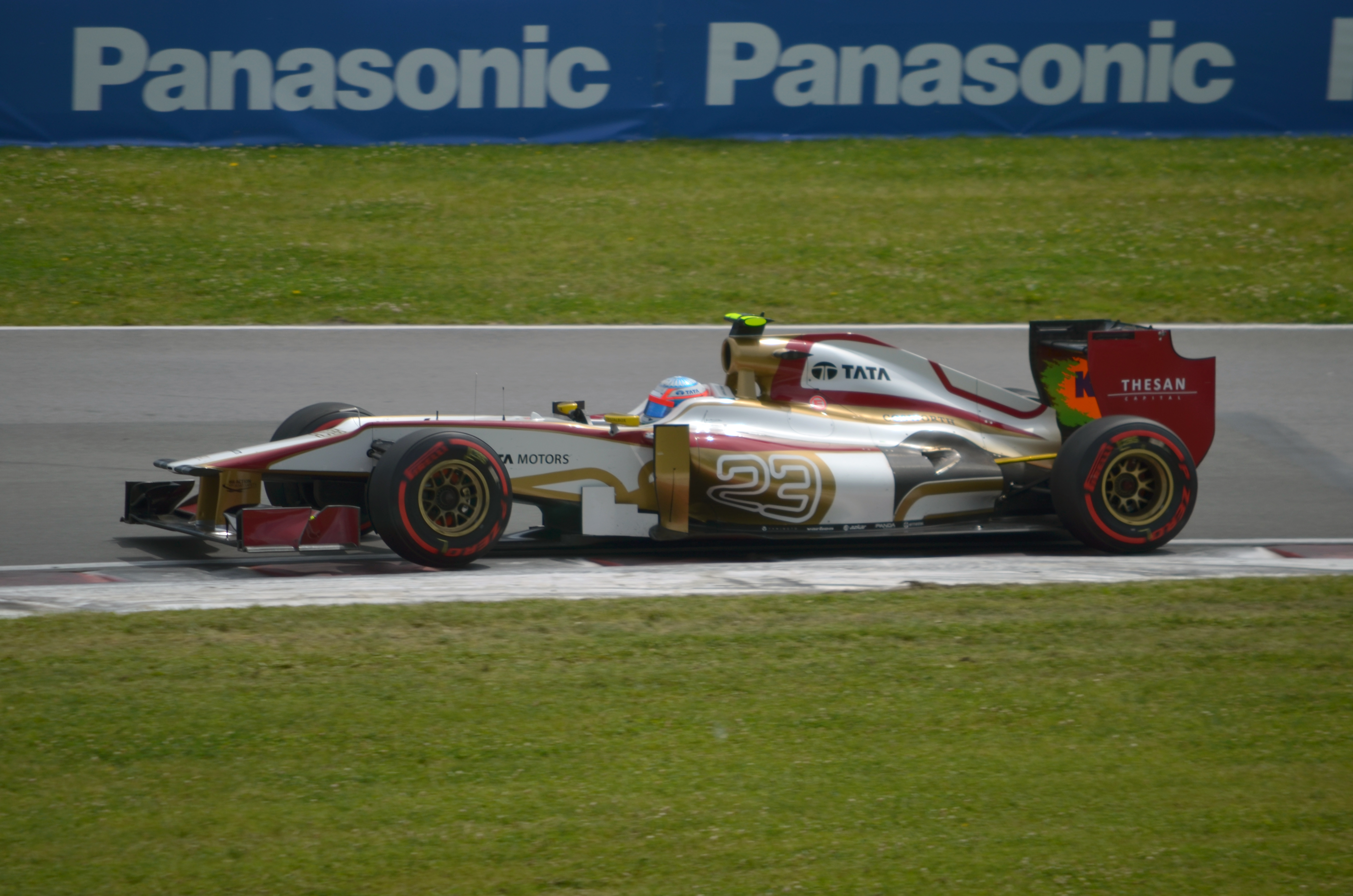 Narain Karthikeyan in the HRT - Cosworth F112 at turn 9 of Circuit Gilles Villeneuve during the 2012 Canadian Grand Prix.